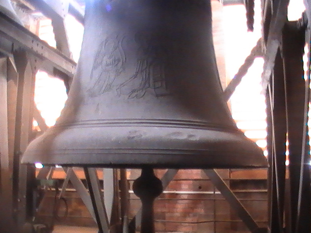 The second largest bell "Maria Gloriosa" in the cathedral of Bremen.